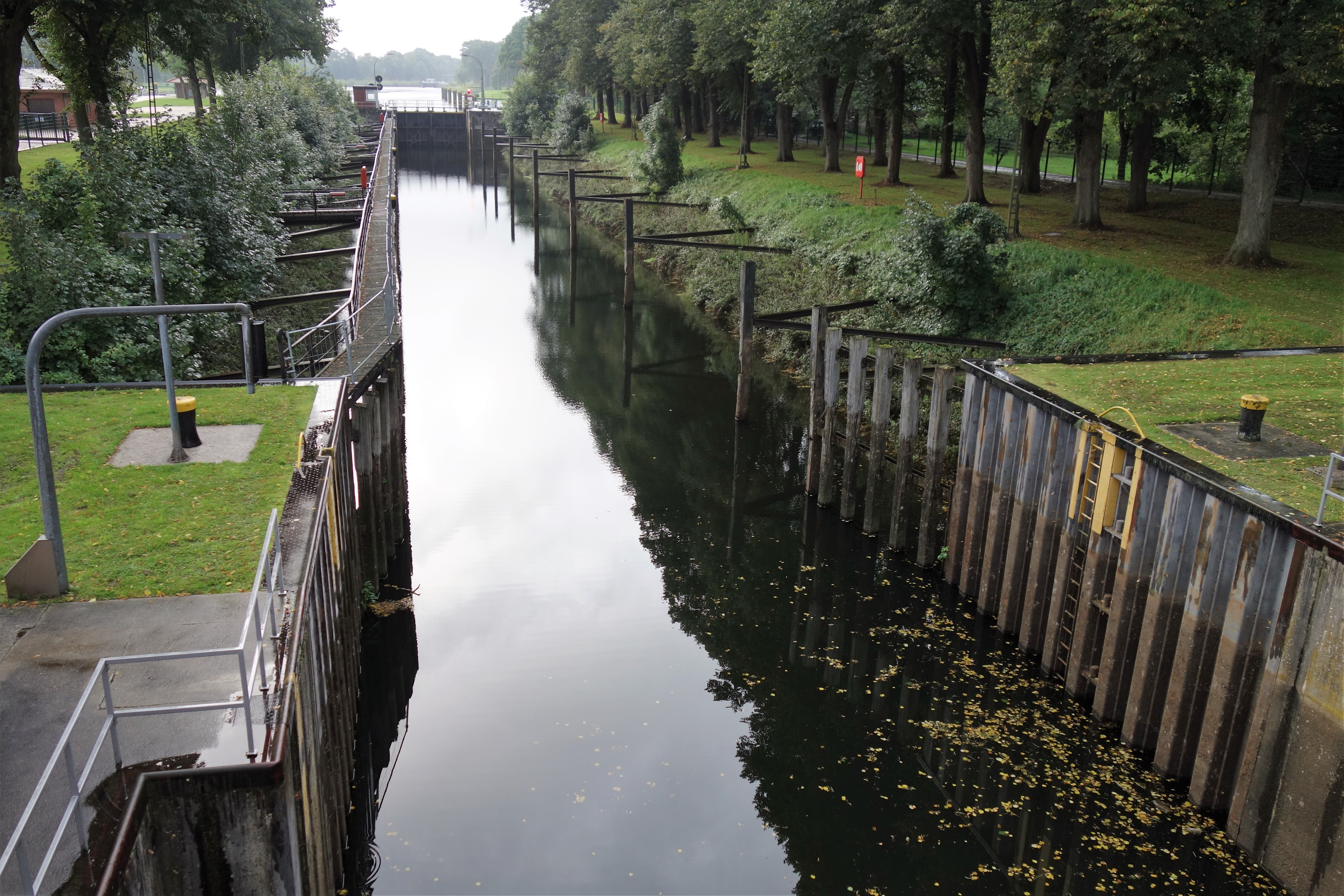 1896 built and out of service chamber of Hüntel lock